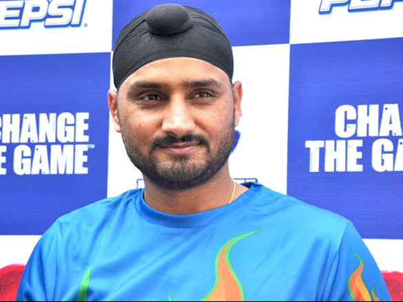 Harbhajan Singh's Pepsi promotional event 'Change The Game'